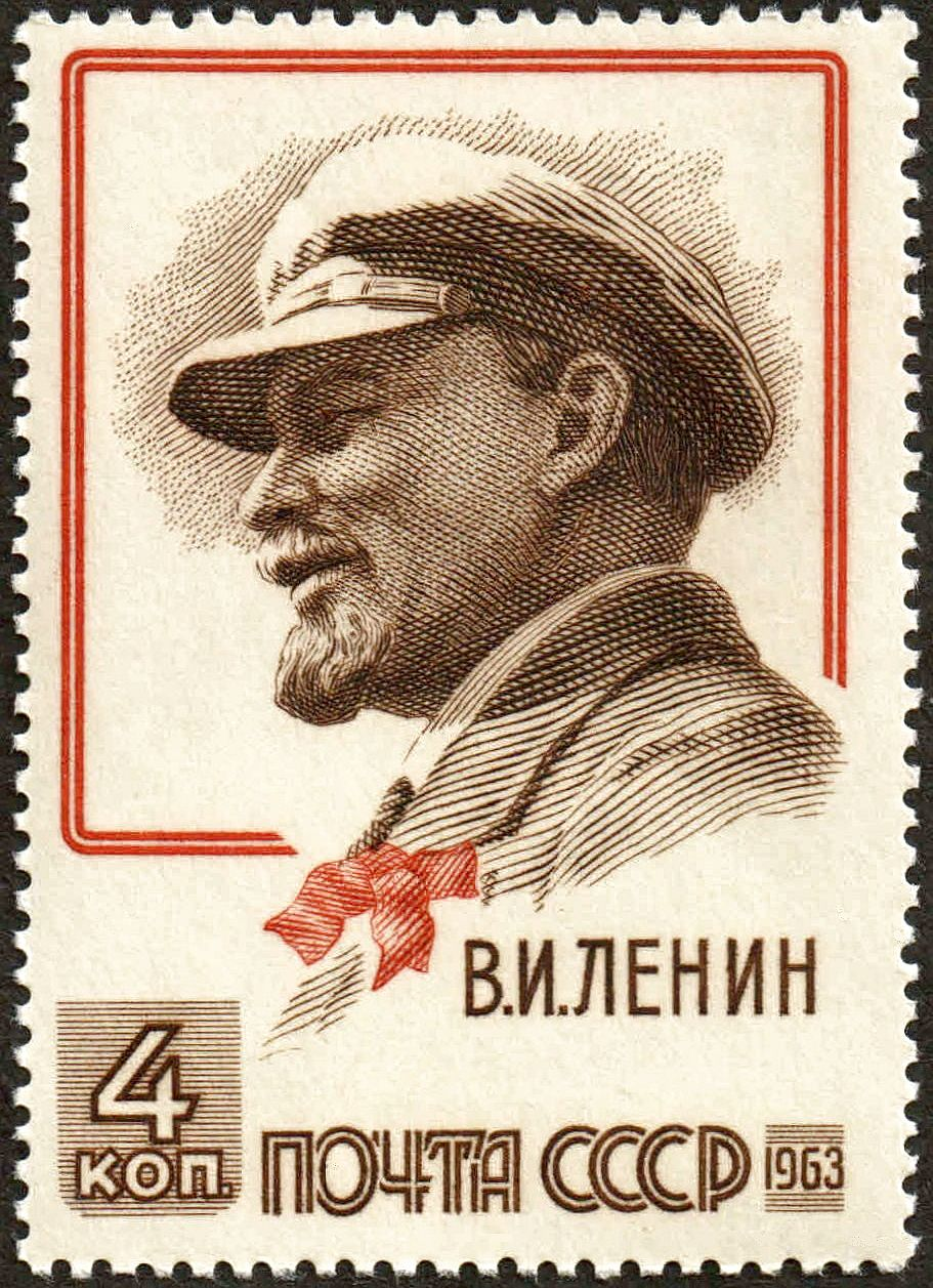 93th birth anniversary of the founder of the Communist party and the Soviet state Vladimir Lenin.The portrait of Vladimir Lenin after the painting Vladimir Lenin on a Tribune 1 May 1920 by Isaak Brodsky (oil on canvas, 116×89 cm, 1927) [1]. The stamp of the Soviet Union, 4 kopecks, 30 March 1963, CPA Catalogue No 2845, Michel No 2738a, Scott No 2727, Yvert No 2652. Intaglio printing. Colours: brown, red. Perforation: comb 12×12½. Size of the stamp: 37×52 mm. Print run: 3,000,000.There are known the varieties of the stamp: the stamps on white and light pink paper, unperforated stamps; as well there is known the proof with the year of issue 1962 and the denomination 50 kopeks.